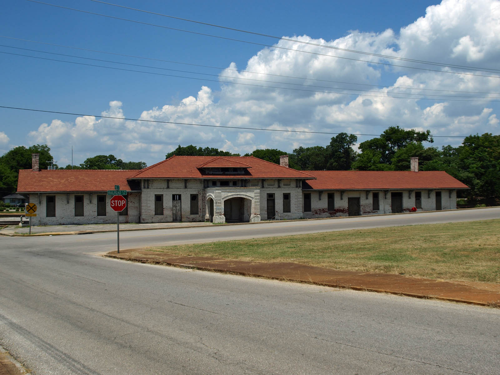 The Southern Railway Depot in Decatur, Alabama, listed on the National Register of Historic Places.